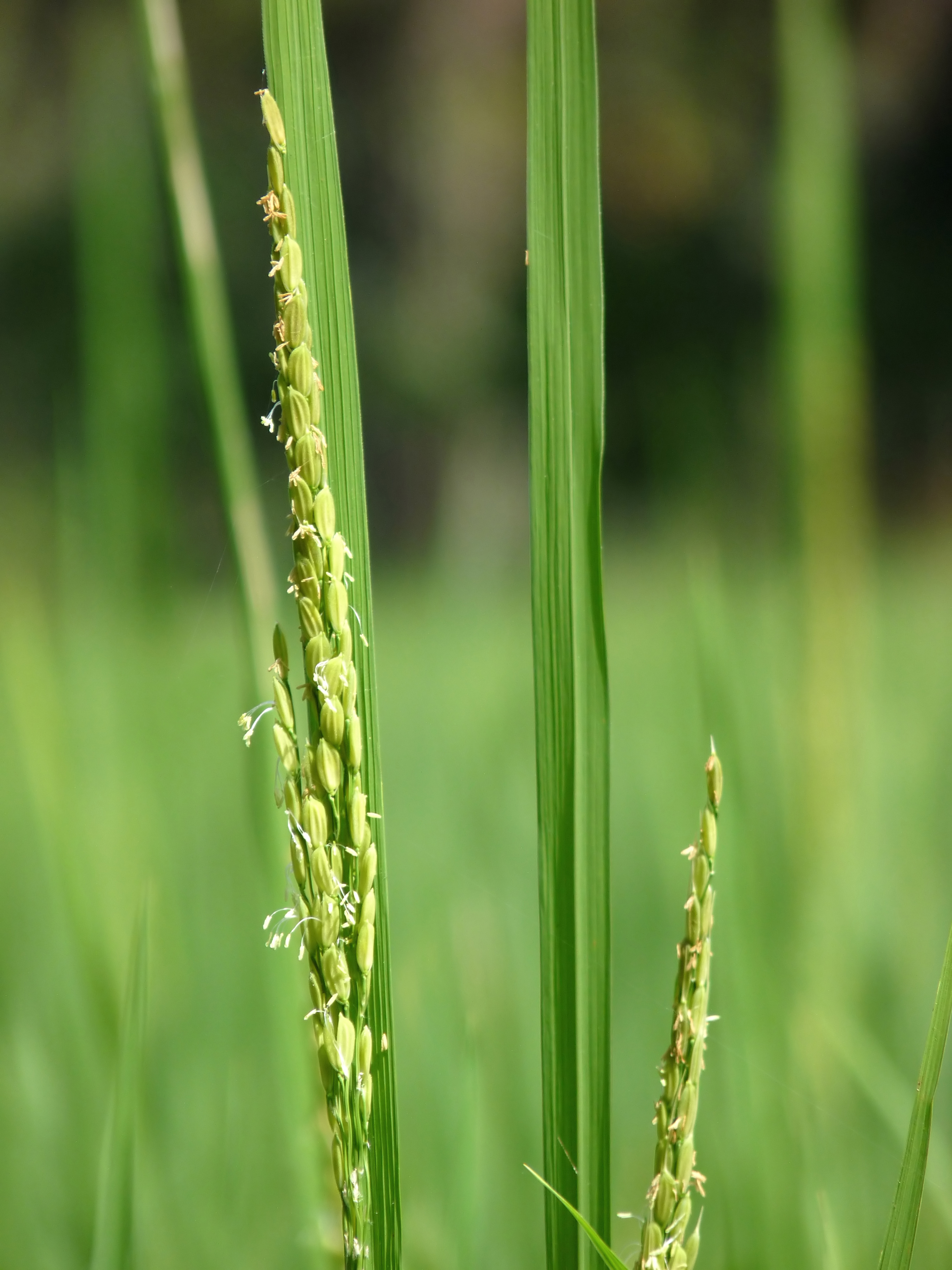 Oryza sativa, commonly known as Asian rice, is the plant species most commonly referred to in English as rice. Oryza sativa is the cereal with the smallest genome, consisting of just 430Mb across 12 chromosomes. It is renowned for being easy to genetically modify, and is a model organism for cereal biology. Oryza sativa contains two major subspecies: the sticky, short grained japonica or sinica variety, and the nonsticky, long-grained indica variety. Japonica varieties are usually cultivated in dry fields, in temperate East Asia, upland areas of Southeast Asia and high elevations in South Asia, while indica varieties are mainly lowland rices, grown mostly submerged, throughout tropical Asia. Rice is known to come in a variety of colors, including: White rice, Brown rice, Black rice, Purple rice, and Red rice. The rice plant can grow up to 3.3–5.9 ft tall, occasionally more depending on the variety and soil fertility. It has long, slender leaves 50-100 cm long and 2-2.5 cm broad. The small wind-pollinated flowers are produced in a branched arching to pendulous inflorescence 30-50 cm long. The edible seed is a grain 0.5-1.2 cm long and 2-3 mm thick. Rice cultivation is well-suited to countries and regions with low labor costs and high rainfall, as it is labor-intensive to cultivate and requires ample water. Rice can be grown practically anywhere, even on a steep hill or mountain. Although its parent species are native to South Asia and certain parts of Africa, centuries of trade and exportation have made it commonplace in many cultures worldwide.